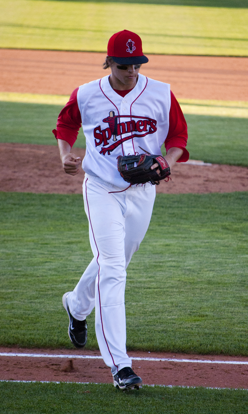 Garin Cecchini with the Lowell Spinners in 2011